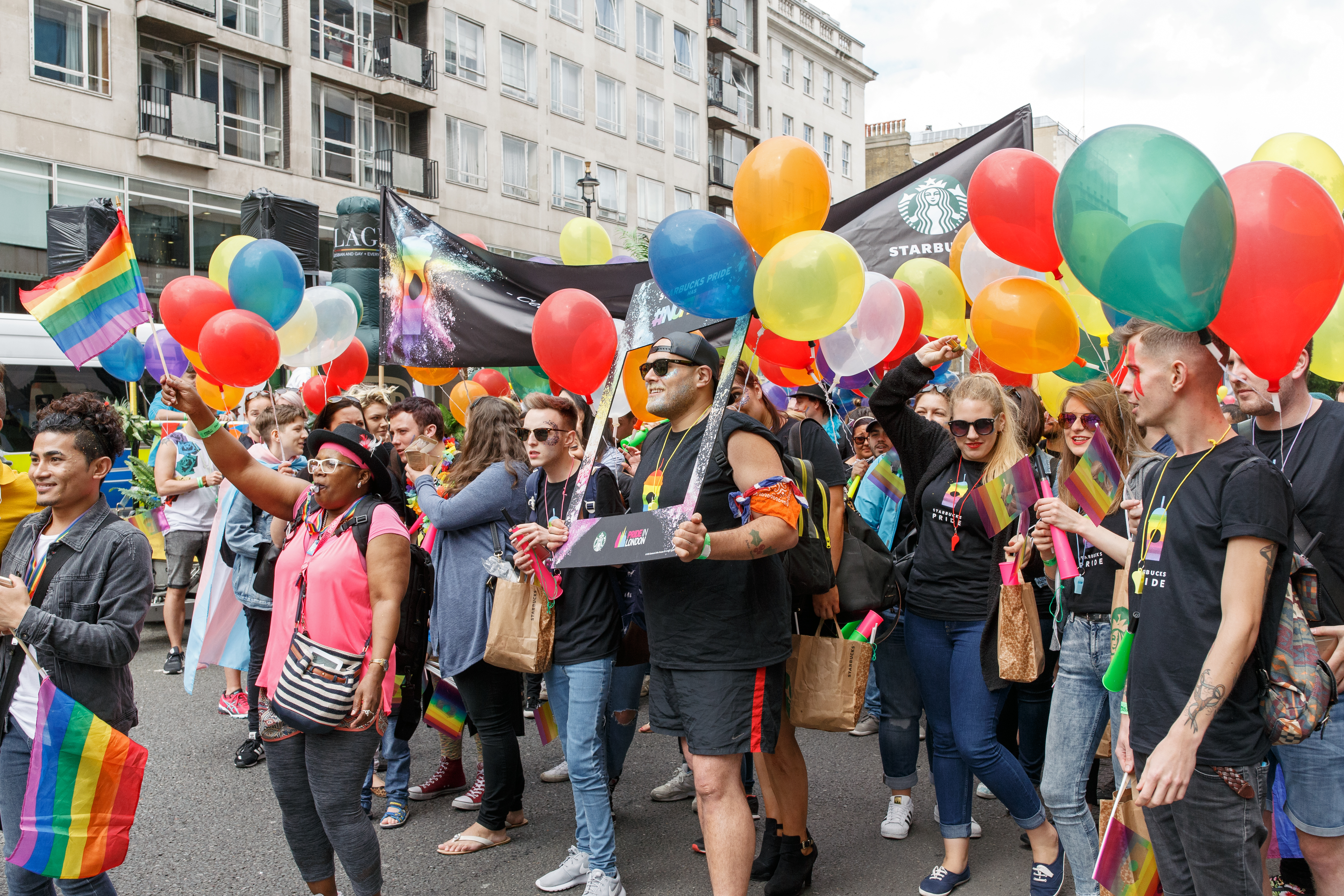 Starbucks Pride - made up of employees and associates of Starbucks - awaiting the Pride in London 2016 parade at Portland Place.